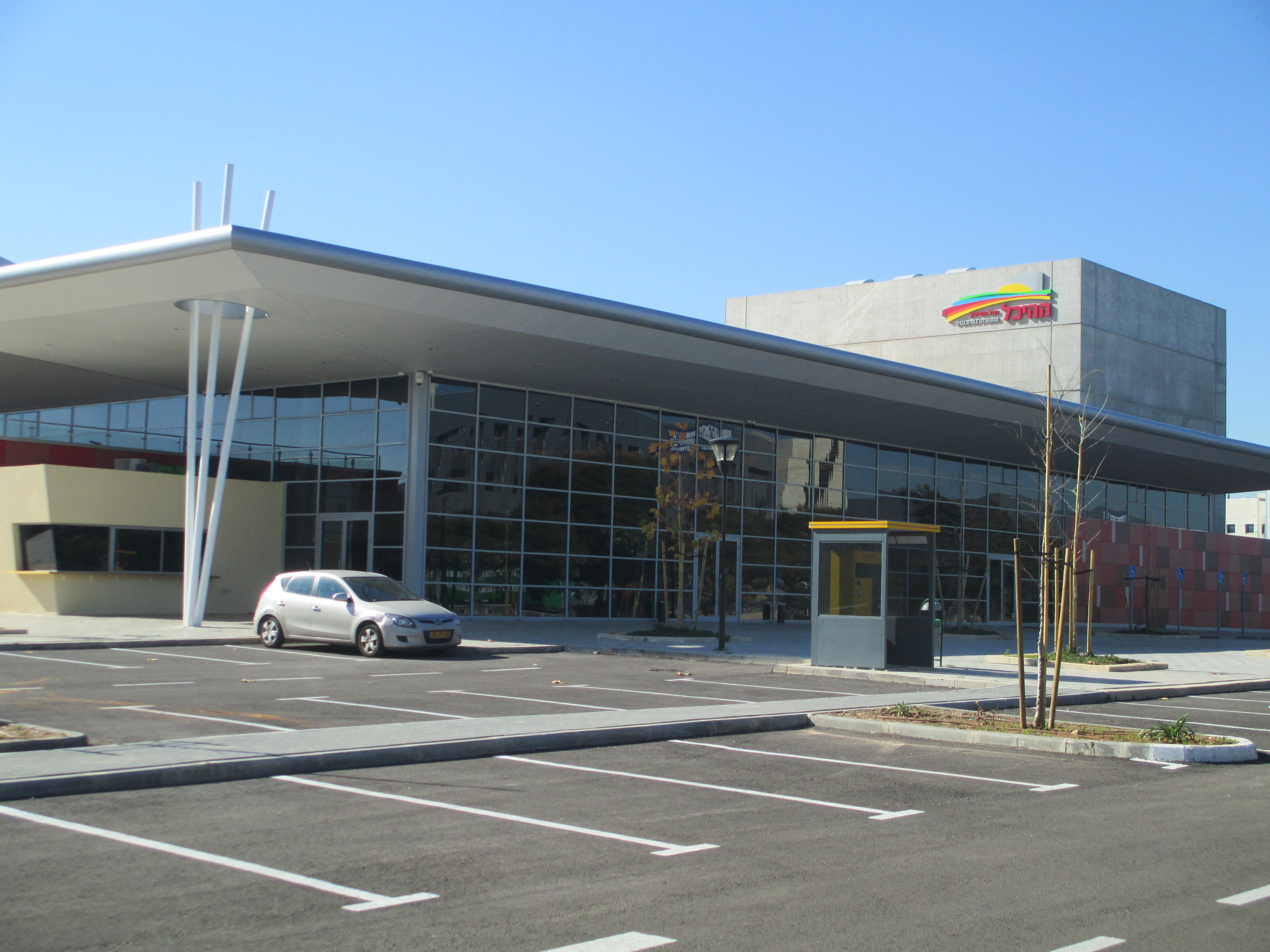 Airport City Israel-cultural center